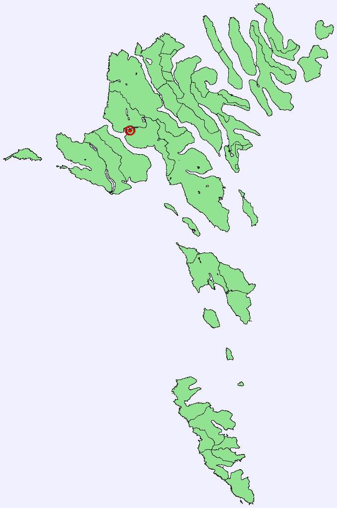 Position of Válur in the Faroe Islands.